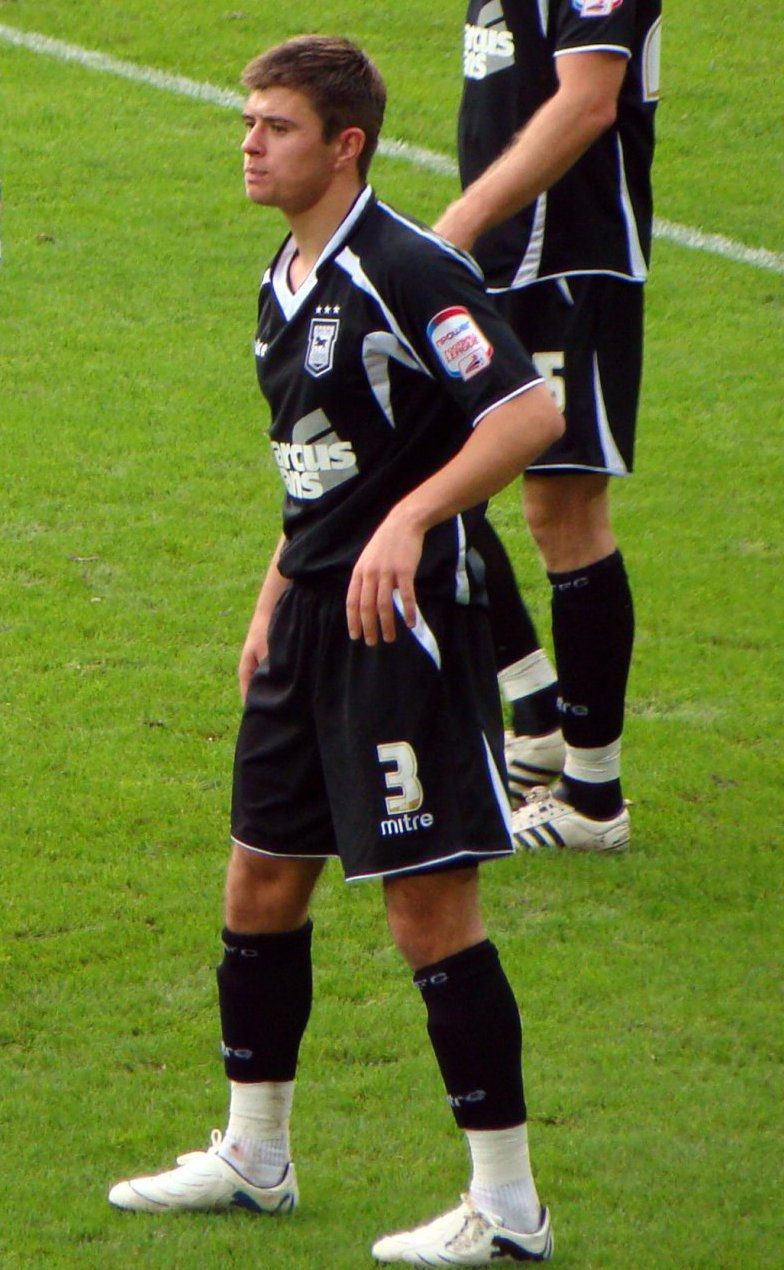 15/10/11 Cardiff v Ipswich, Championship, Cardiff City Stadium, Cardiff, Wales